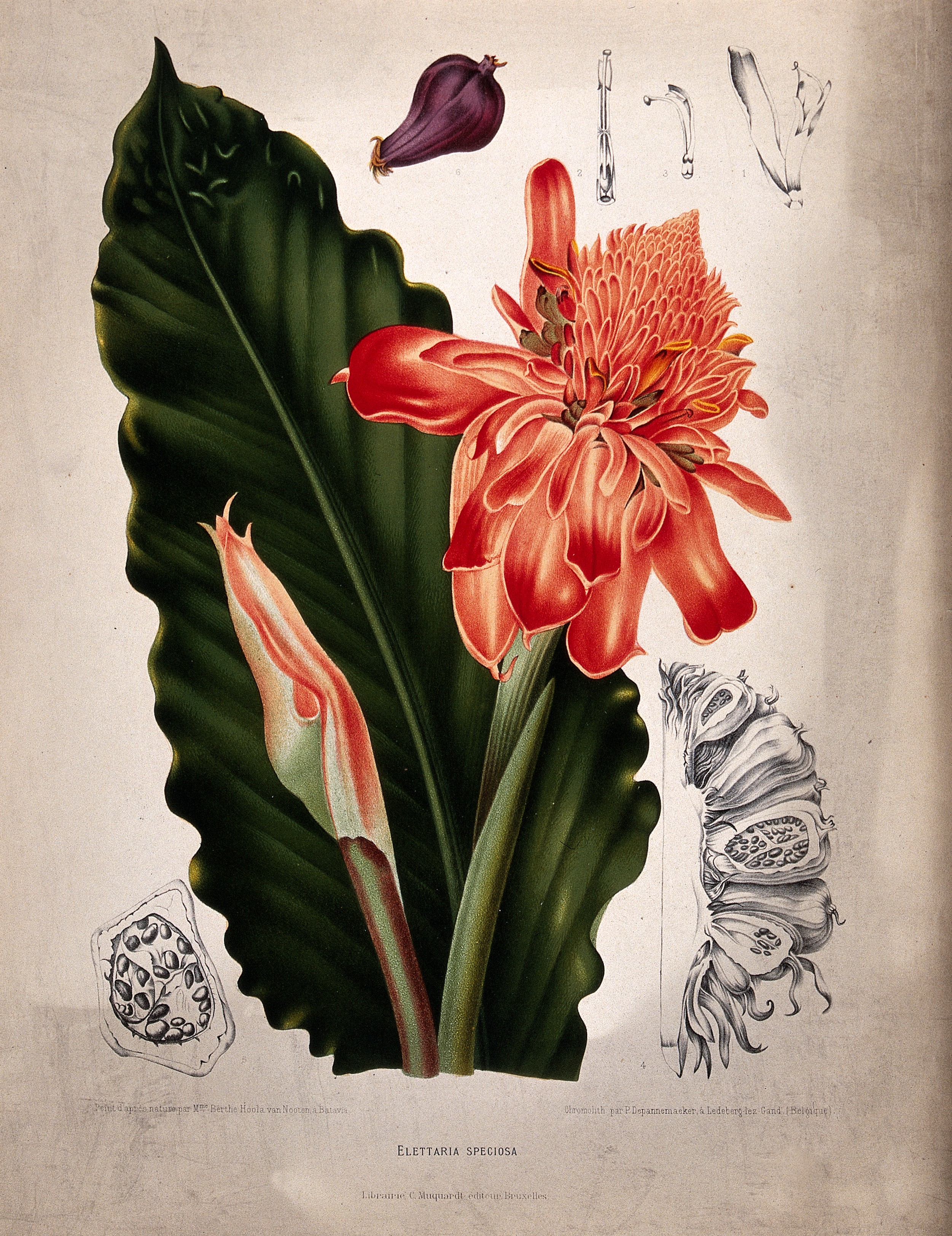 A plant (Elettaria speciosa Blume): flowering shoots with leaf and sections of flower, fruit, and seed. Chromolithograph by P. Depannemaeker, c.1885, after B. Hoola van Nooten. Iconographic Collections Keywords: Berthe van Nooten Hoola; Pierre Joseph Depannemaeker; botany - java (indonesia); chromolithographs; Elettaria; island flora; Zingiberaceae; cardamoms; plants, edible - java (indones; scientific illustrations